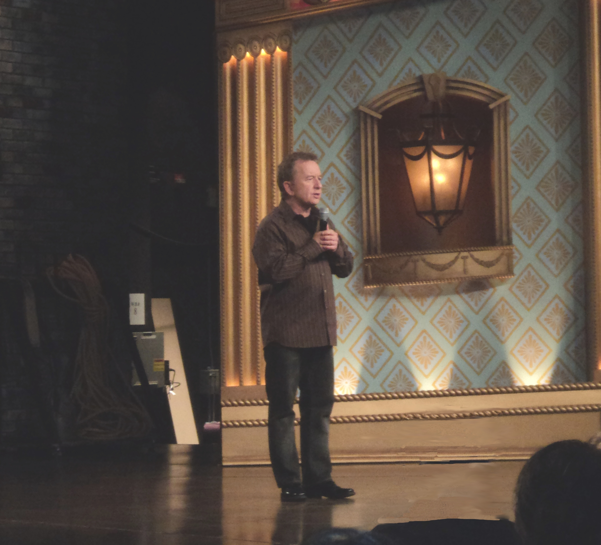 Ron James doing his warm-up during a taping of The Ron James show. Taken at the CBC building in Toronto. Minor edits by myself to remove someone's head that was in the way (clone tool and blended via GIMP), and cropped to show James better.